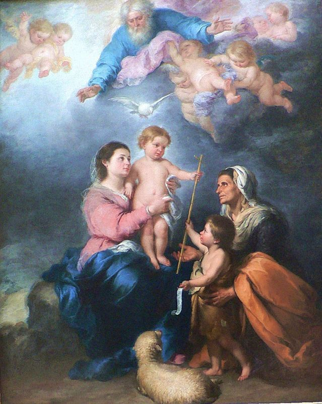 The Virgin of Seville